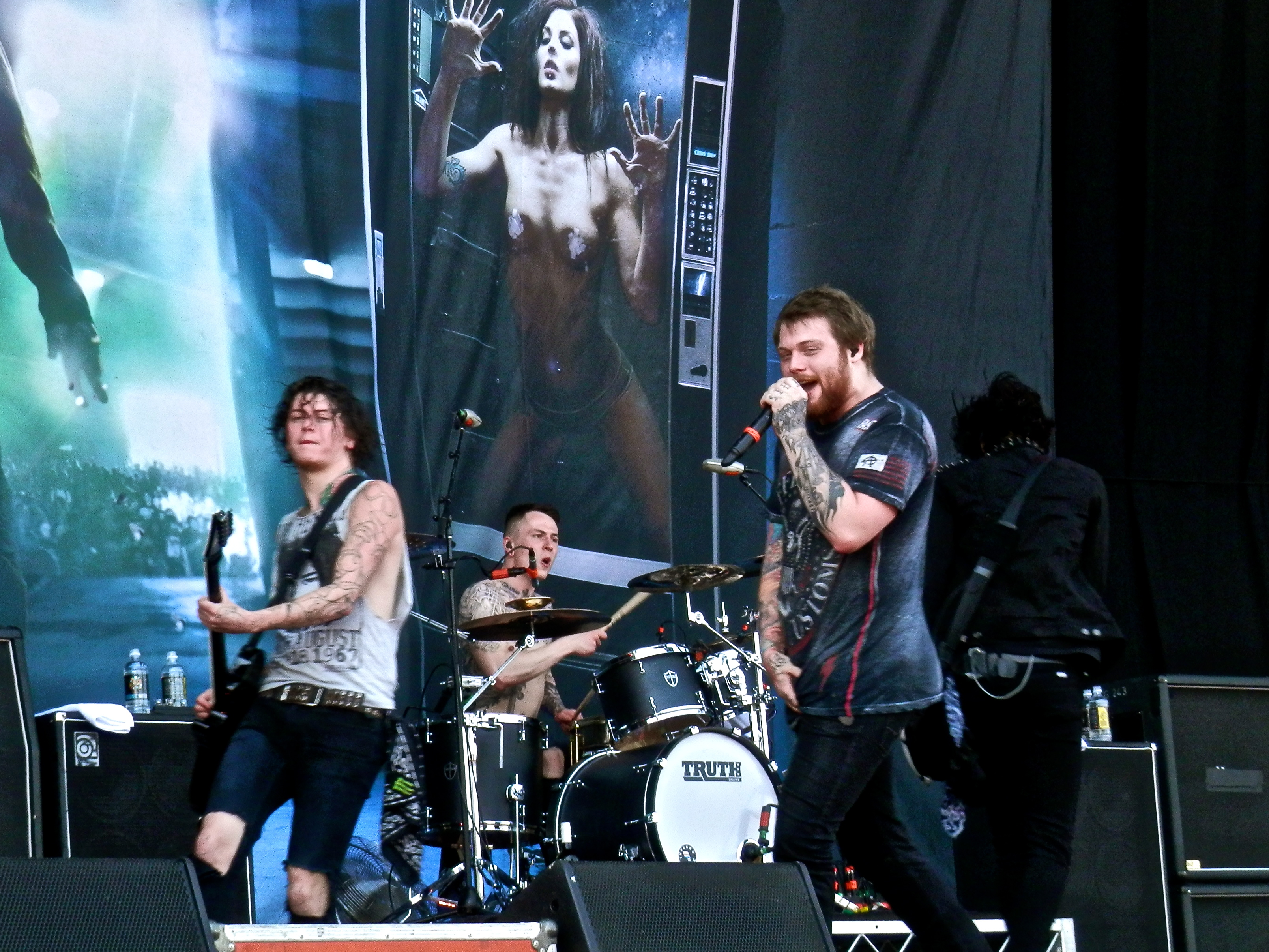 Asking Alexandria performing at Soundwave 2014 in Melbourne, Australia.